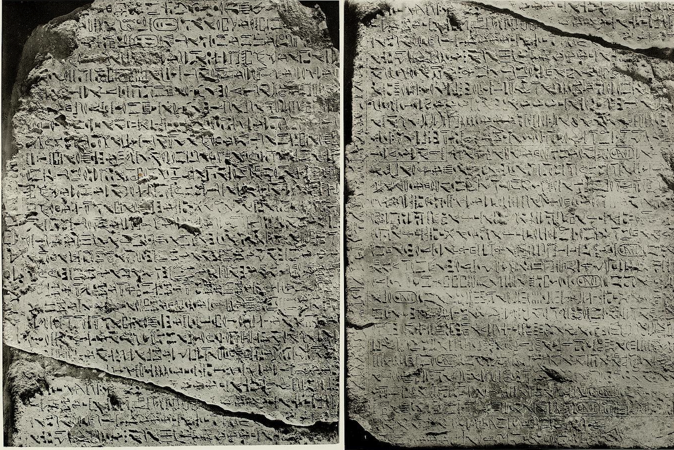 Le Musée égyptien: recueil de monuments et de notices sur les fouilles d'Egypte, vol. I, Le Caire, 1890-1900, pls. XXVII-XVIII